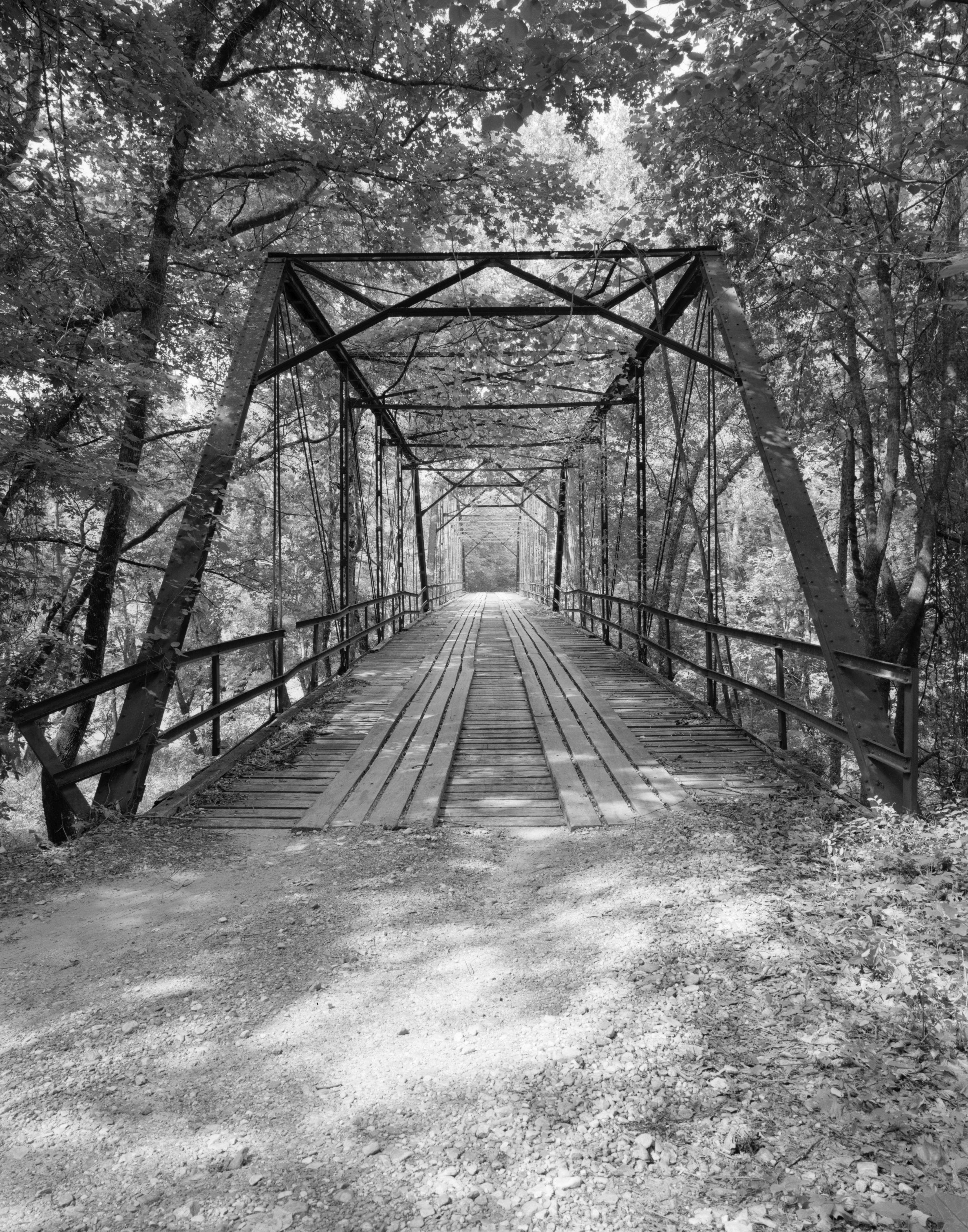 Southwest along the Little Missouri River Bridge, which carries County Road 139 over the Little Missouri River near Prescott in Clark County, Arkansas, United States. Built in 1910, this camelback Pratt through truss bridge is listed on the National Register of Historic Places.